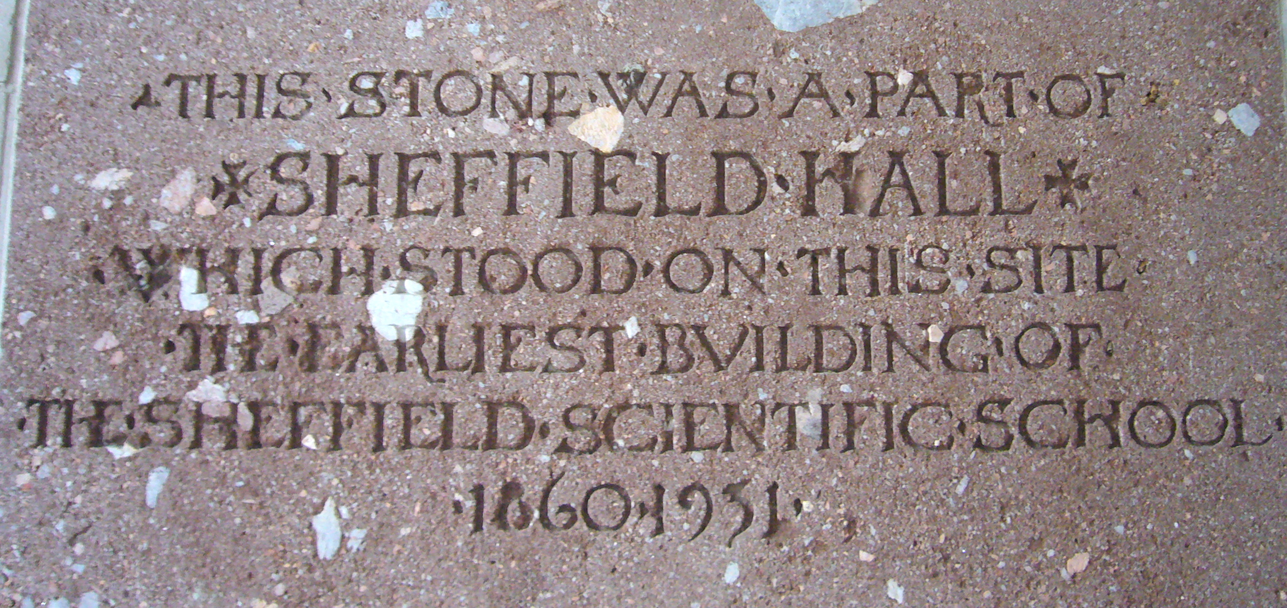 Plaque commemorating Sheffield Hall in Sheffield-Sterling-Strathcona Hall, Yale University, New Haven, CT, USA